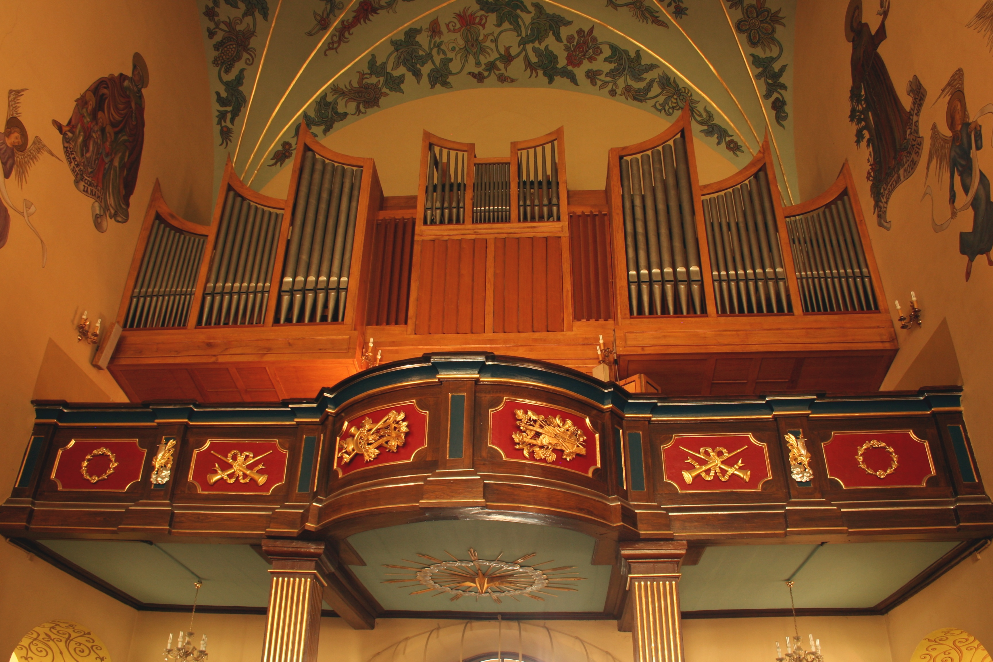 Church in Łańcut - the organ, Poland